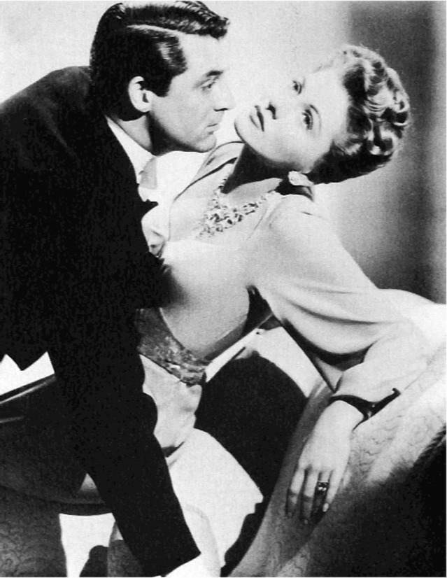 Photo of Cary Grant and Joan Fontaine from an ad for the 1941 film Suspicion in the trade publication Motion Picture Herald. There are no copyright marks on either page of this ad. RKO did not mark the ad as copyrighted; copyrights for Notion Picture Herald would not apply to the ad. (A check of periodical renewals for the years 1968 and 1969 indicate Notion Picture Herald did not renew their copyright for 1941 issues of the trade journal.) US Copyright Office page 3-magazines are collective works (PDF) "A notice for the collective work will not serve as the notice for advertisements inserted on behalf of persons other than the copyright owner of the collective work. These advertisements should each bear a separate notice in the name of the copyright owner of the advertisement."